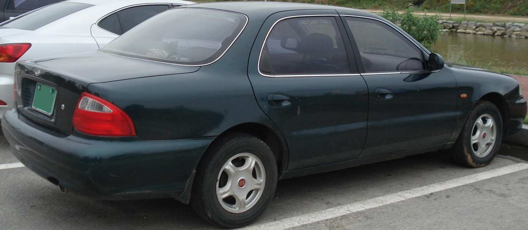 Kia Credos Ⅱ